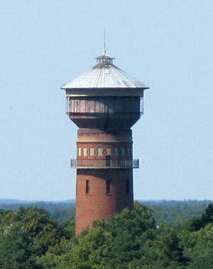 Water tower in Wittenberge, disctrict Prignitz, Brandenburg, Germany